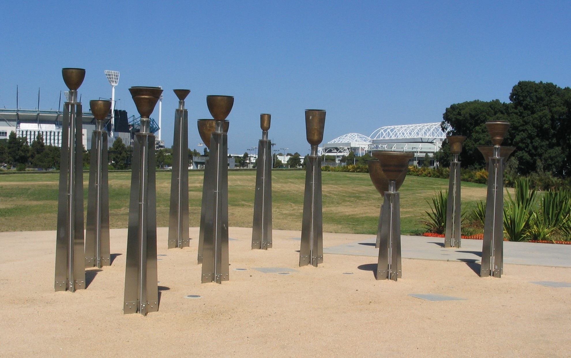 Sculpture Melbourne Bell's by Anton Haselt and Neil McLachlan in Birrarung Marr/Melbourne/Australiabells